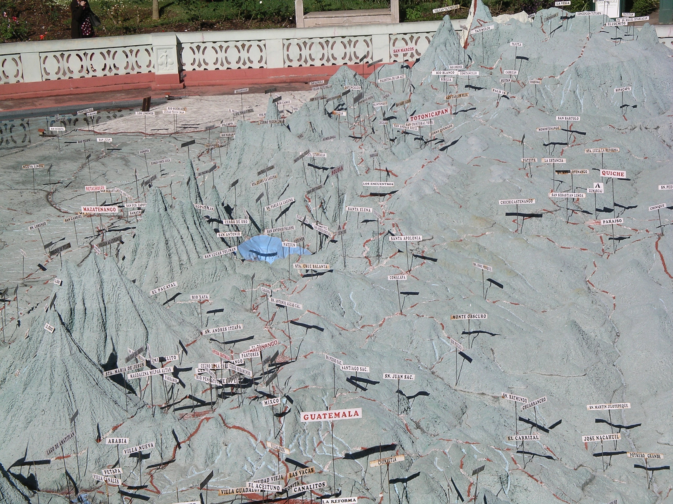 Relief map of Guatemala, in Guatemala City